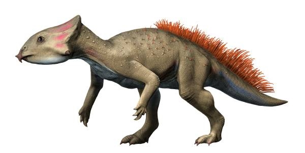 Life reconstruction of Aquilops americanus